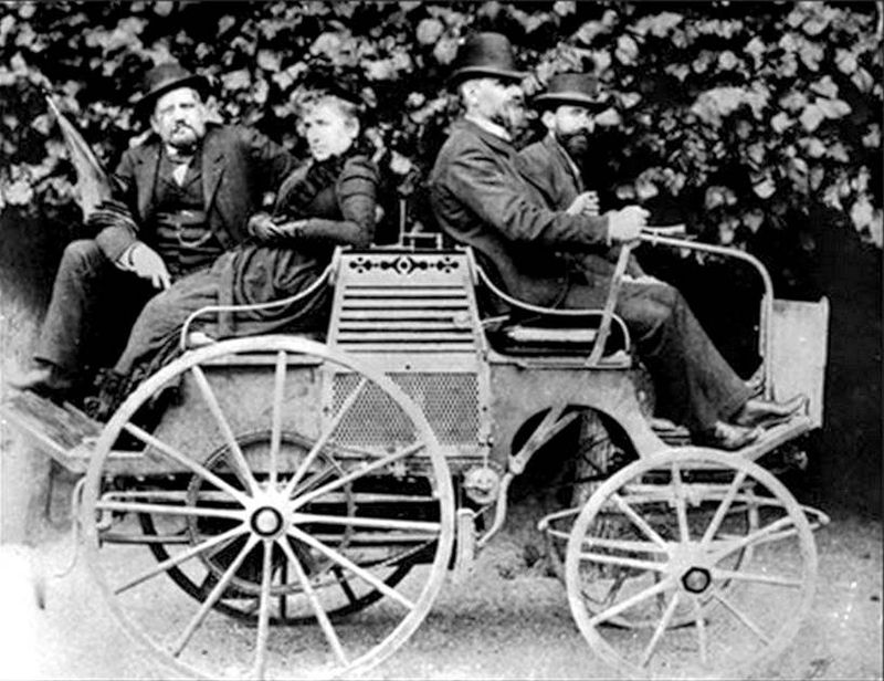 Panhard & Levassor mid-engined prototype automobile,[1] 1890/91. ↑ a b Seiffert, Reinhard: Die Ära Gottlieb Daimlers. Neue Perspektiven zur Frühgeschichte des Automobils und seiner Technik. Vieweg+Teubner, Wiesbaden 2009, ISBN 978-3-8348-0962-9, p. 122.